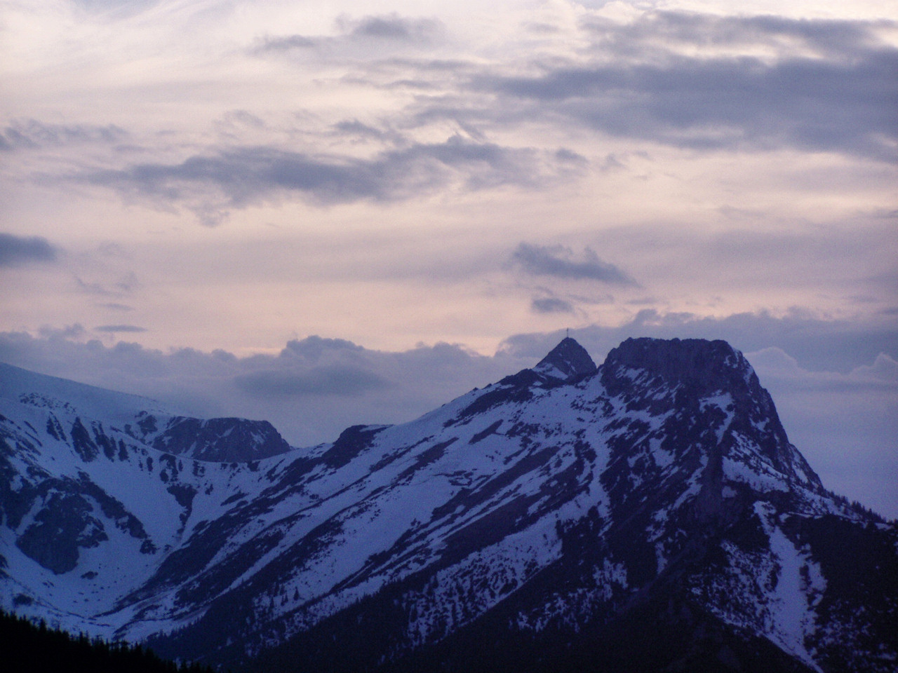 Giewont peak seen from East, Tatra Mountains, Poland.